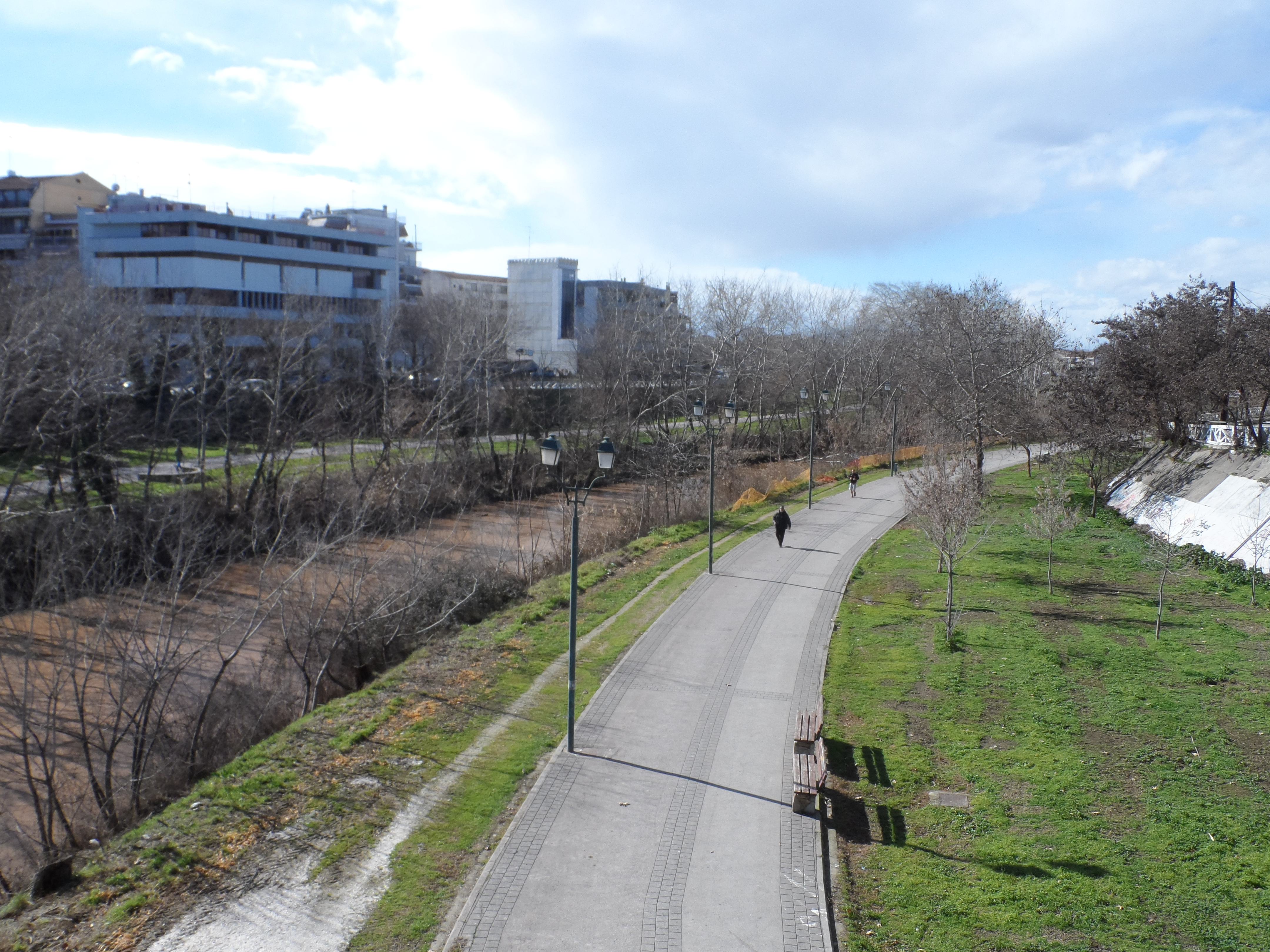 Pineios river inside Larissa